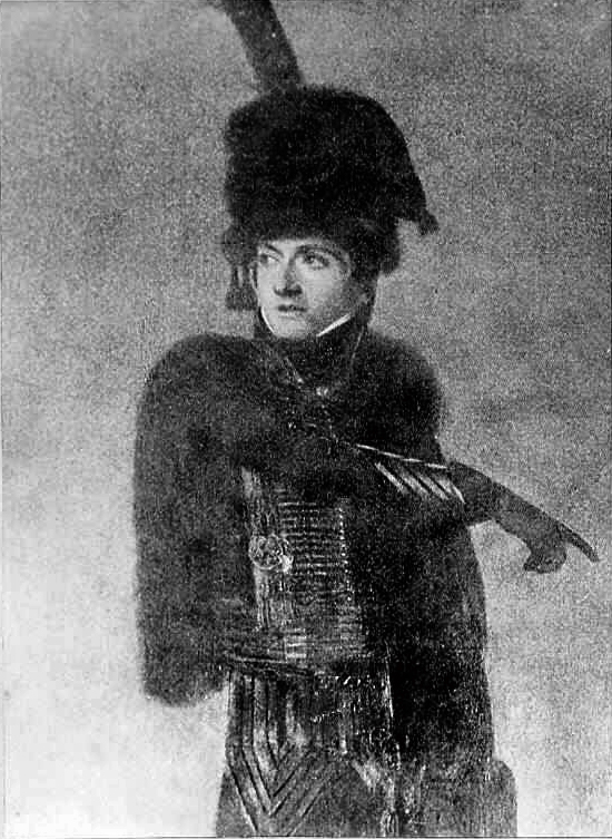 Adam Fredrik Netherwood